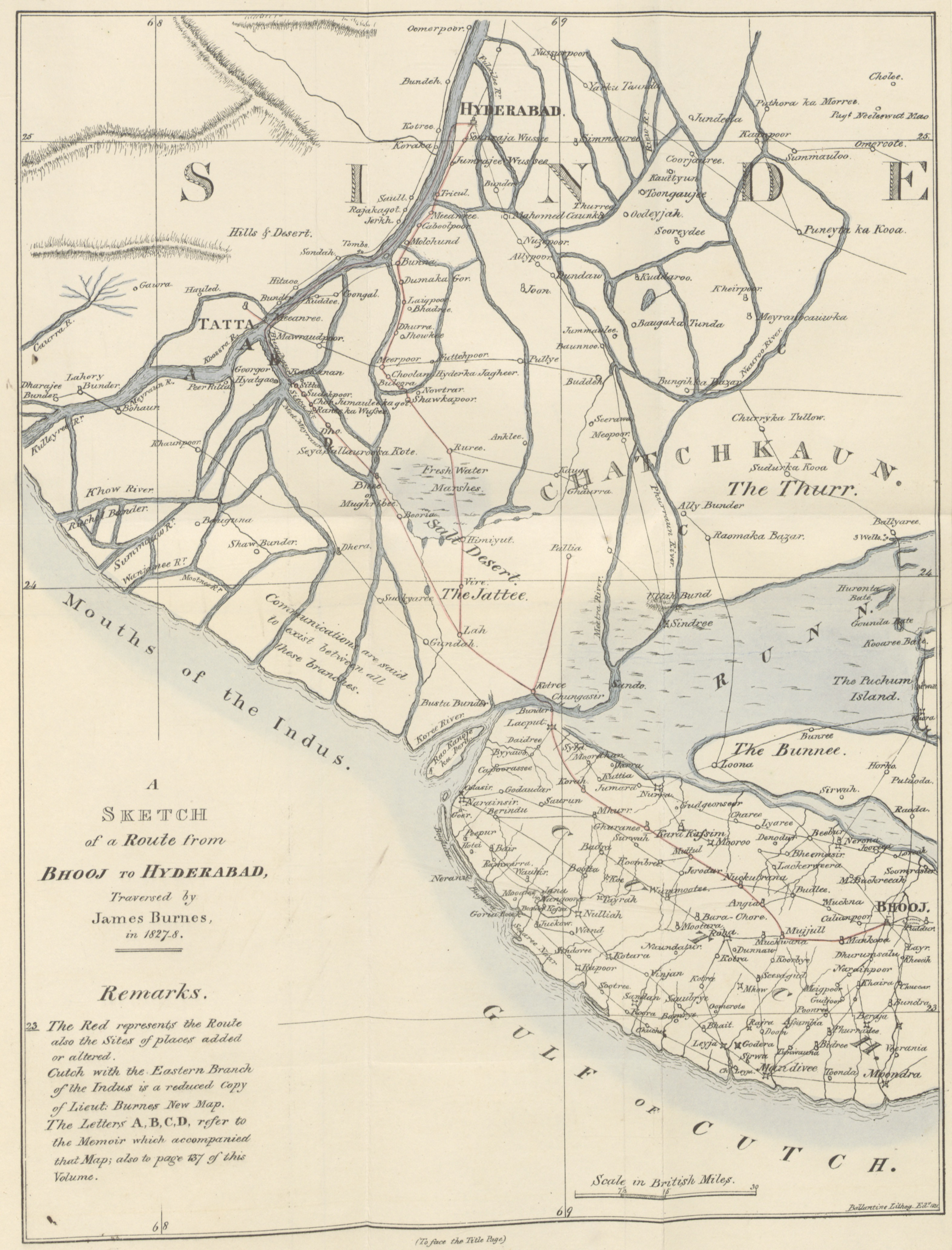 Image taken from: Title: "[Narrative of a Visit to the Court of ... the Ameers of Sínde, at Hyderabad ... in the year 1827-28, compiled officially for the Government of Bombay, by James Burnes ... Presented by ... the Governor in Council to the Literary Society. [With a table.] L.P.]" Author: BURNES, James - Physician-General of India Shelfmark: "British Library HMNTS 1046.k.13.(2.)" Page: 149 Place of Publishing: Edinburgh Date of Publishing: 1831 Publisher: John Stark Edition: [Another edition.] [With maps.] Issuance: monographic Identifier: 000540918 Note: The colours, contrast and appearance of these illustrations are unlikely to be true to life. They are derived from scanned images that have been enhanced for machine interpretation and have been altered from their originals. If you wish to purchase a high quality copy of the page that this image is drawn from, please order it here. Please note that you will need to enter details from the above list - such as the shelfmark, the page, the book's volume and so on - when filling out your order. Explore: Find this item in the British Library catalogue, 'Explore'. Open the page in the British Library's itemViewer (page: 149) Download the PDF for this book Click here to see all the illustrations in this book and click here to browse other illustrations published in books in the same year. Please click on the tags shown on the right-hand side for other ways to browse the illustrations.